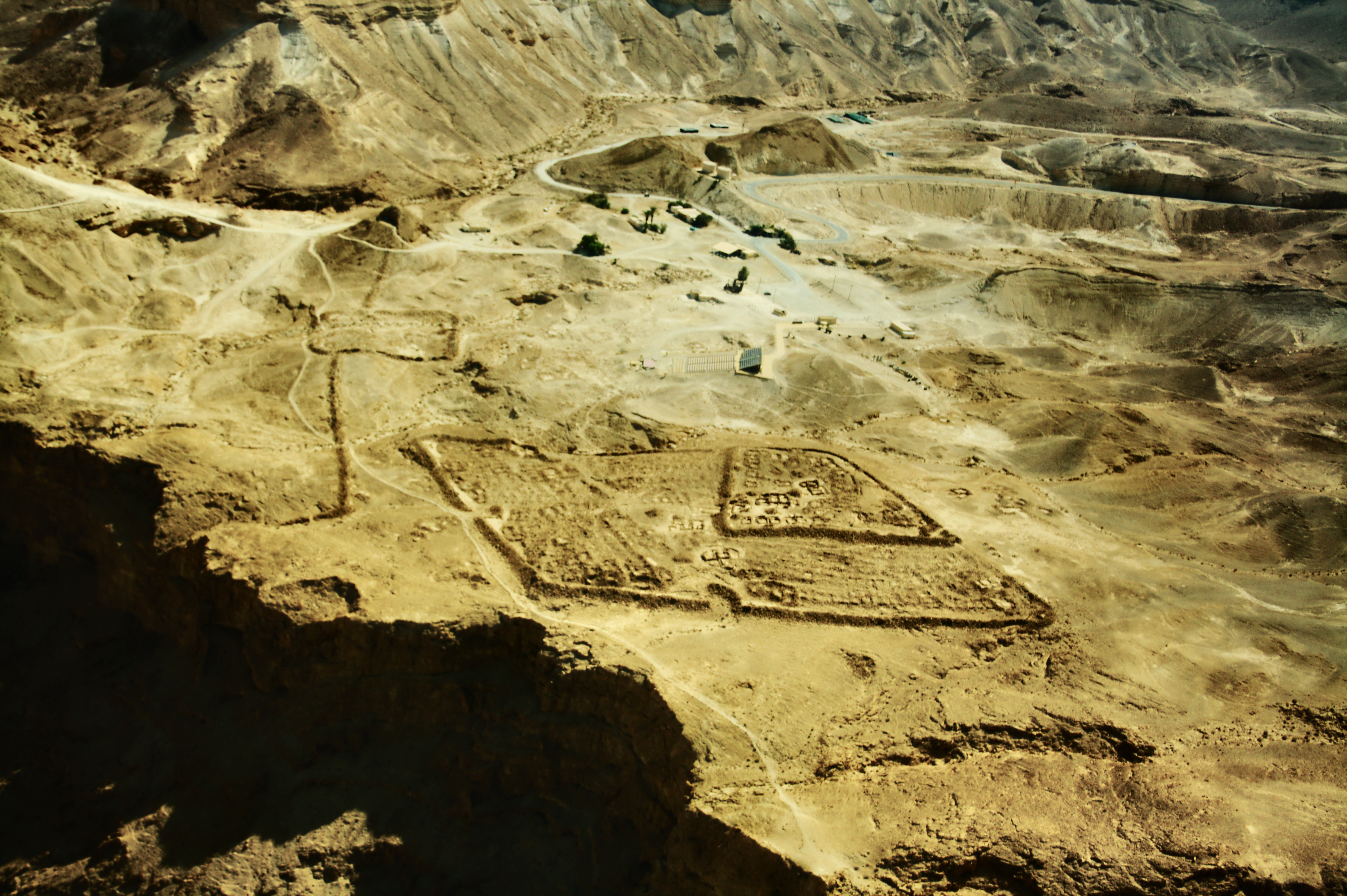 Aerial view of the Roman forts at Masada.